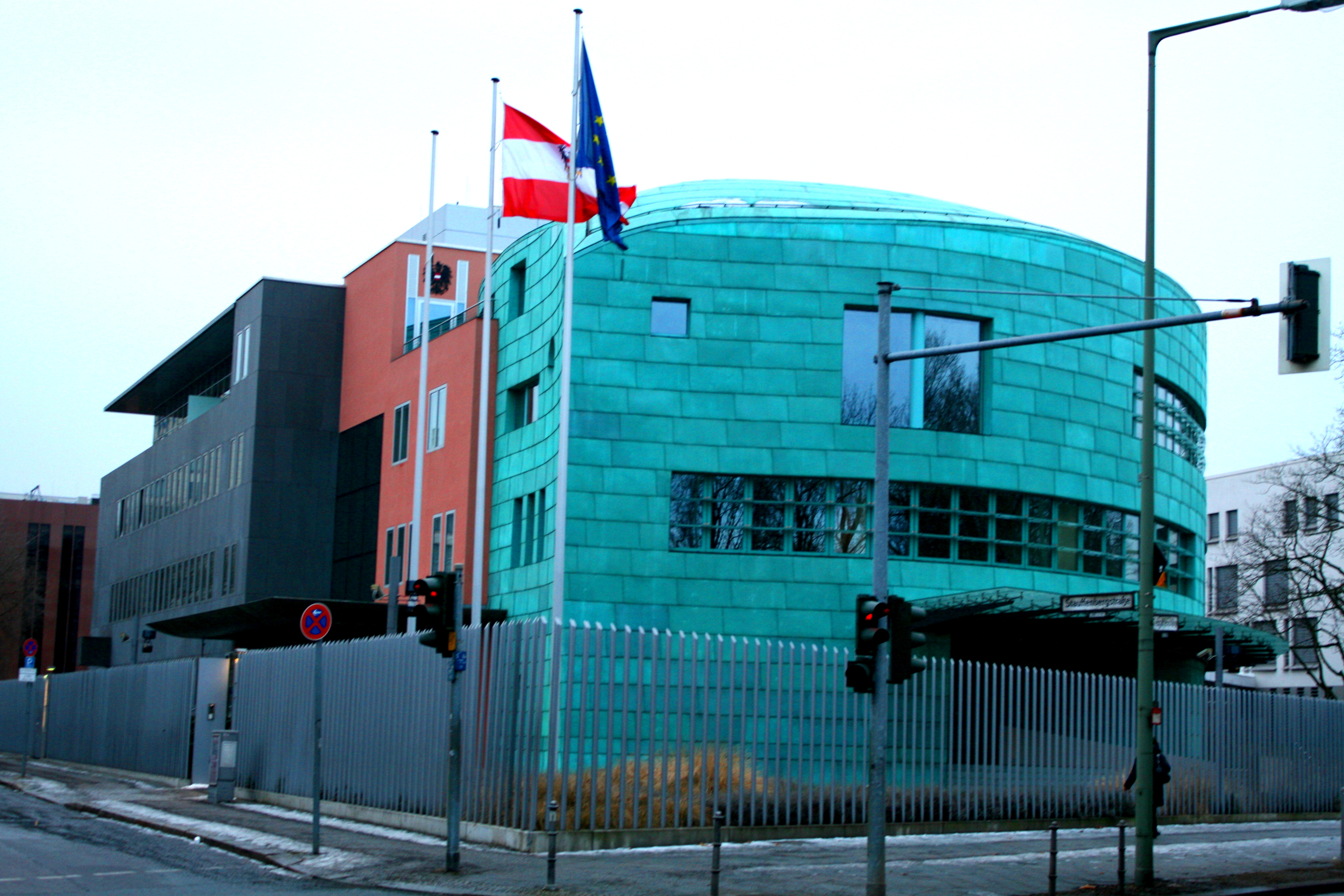 Austrian embassy in Berlin, Germany.